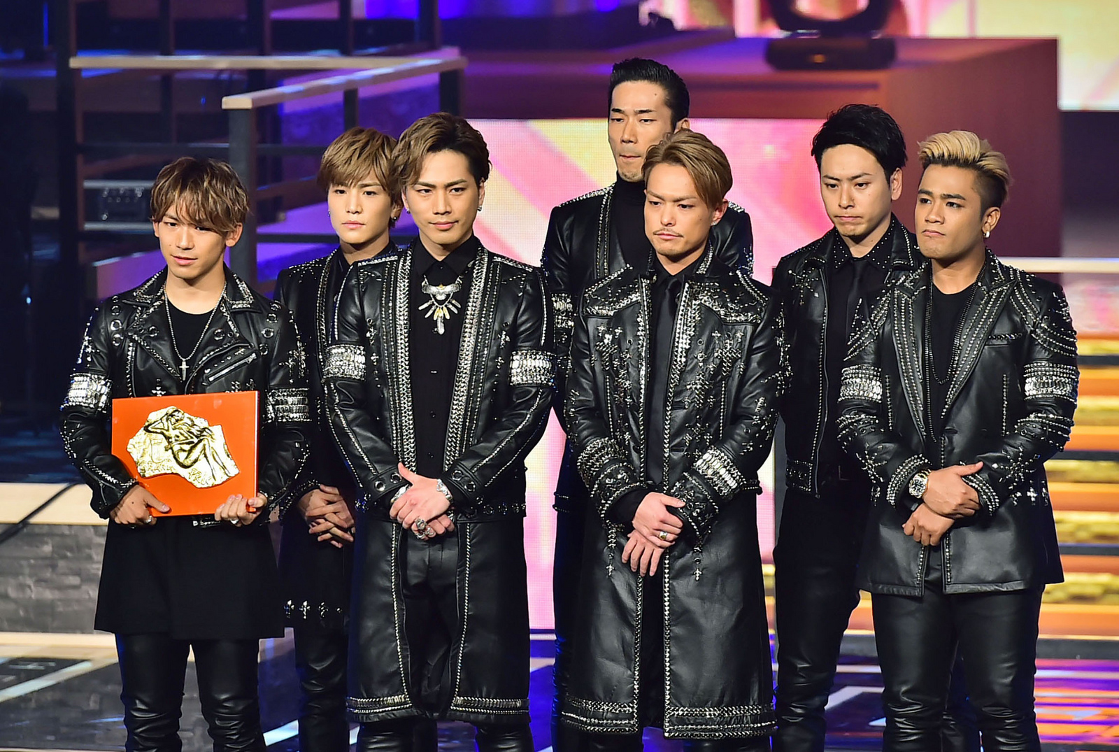 Picture showing Group Sandaime J Soul Brothers receiving the Japan Record Awards Grand Prize for their record Unfair World.